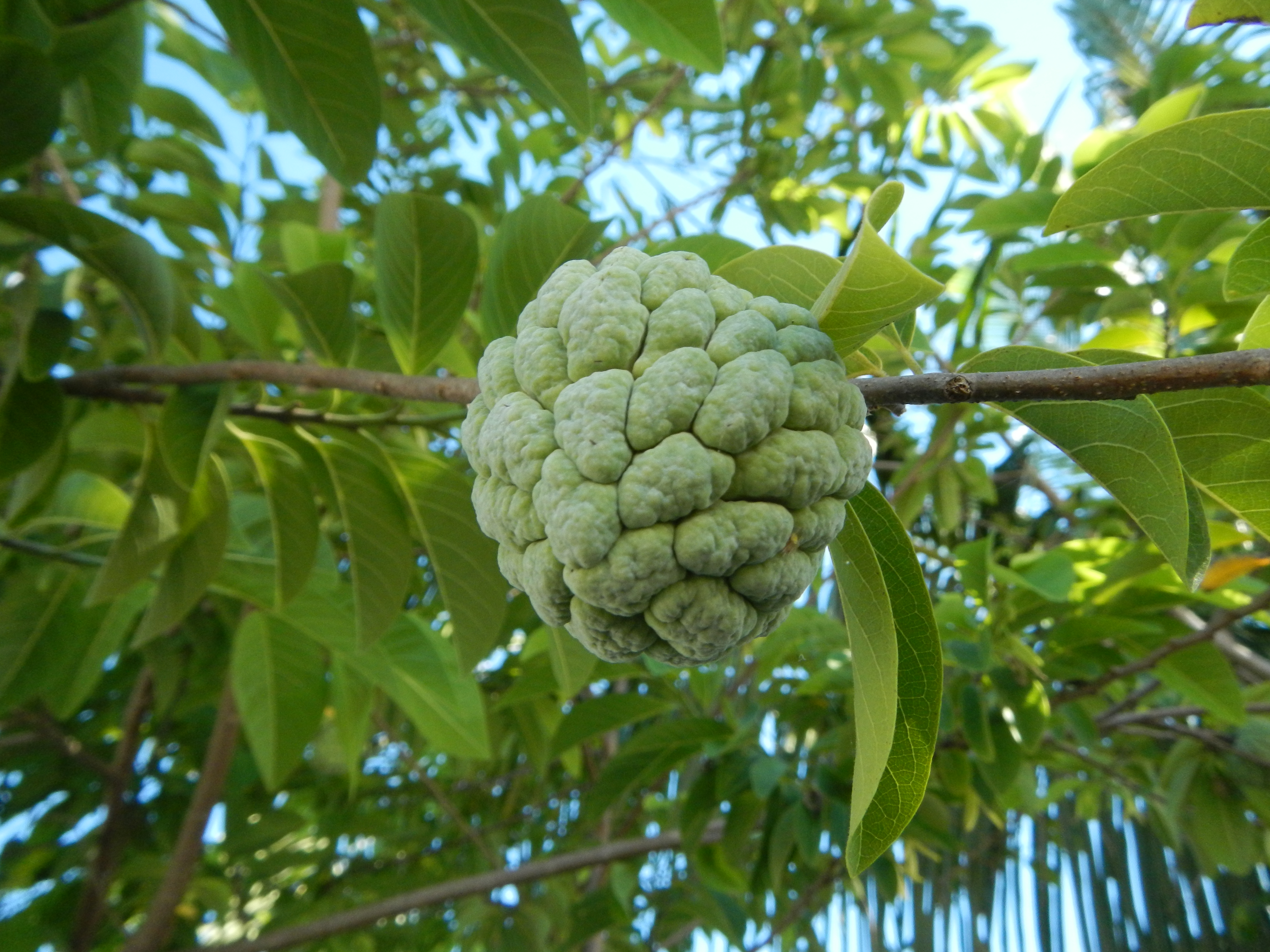 Annona squamosa Atis fruit, sugar apple in Barangay Malupa, Concepcion, Tarlac